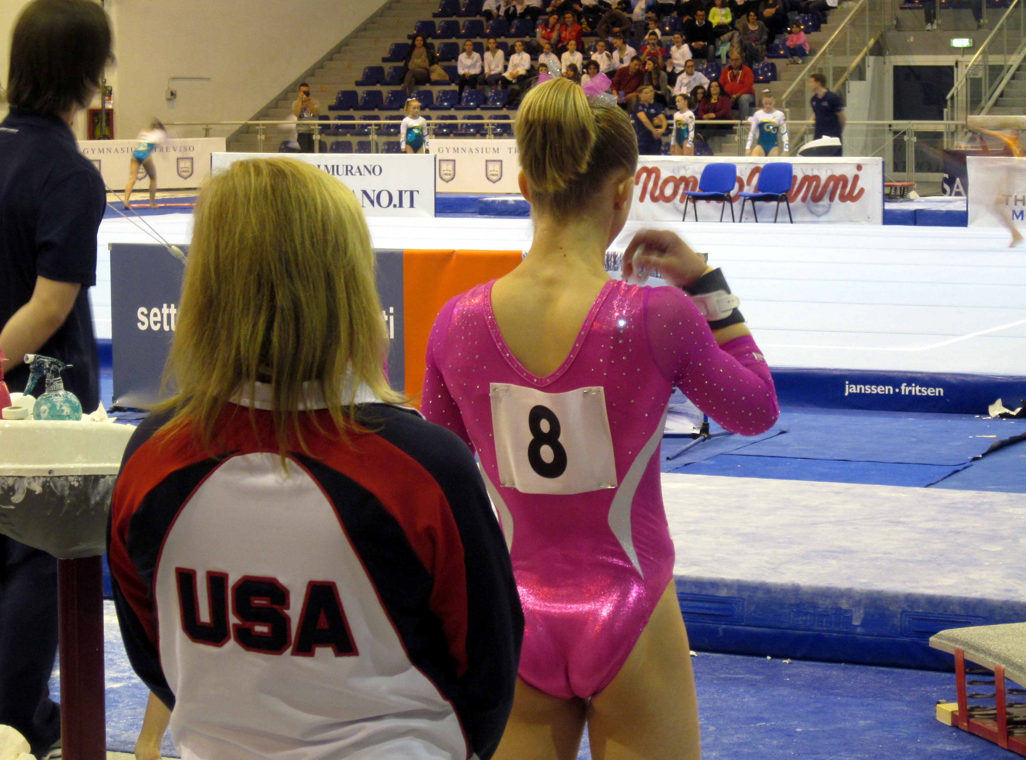 Bailie Key at Jesolo Trophy 2014. Behind her, the national trainer Kim Zmeskal